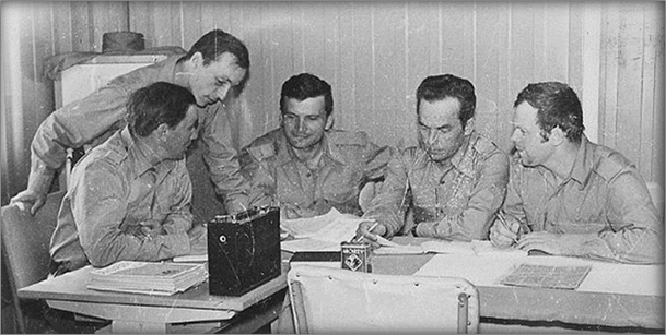 231st AA SAM Regiment officers are working with documentation.